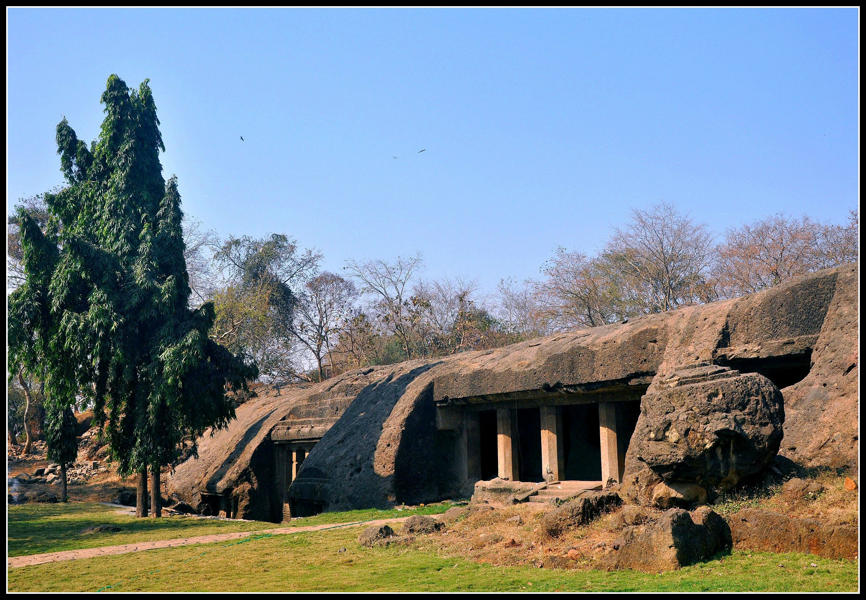 FRONT VIEW OF MAHAKALI CAVE .